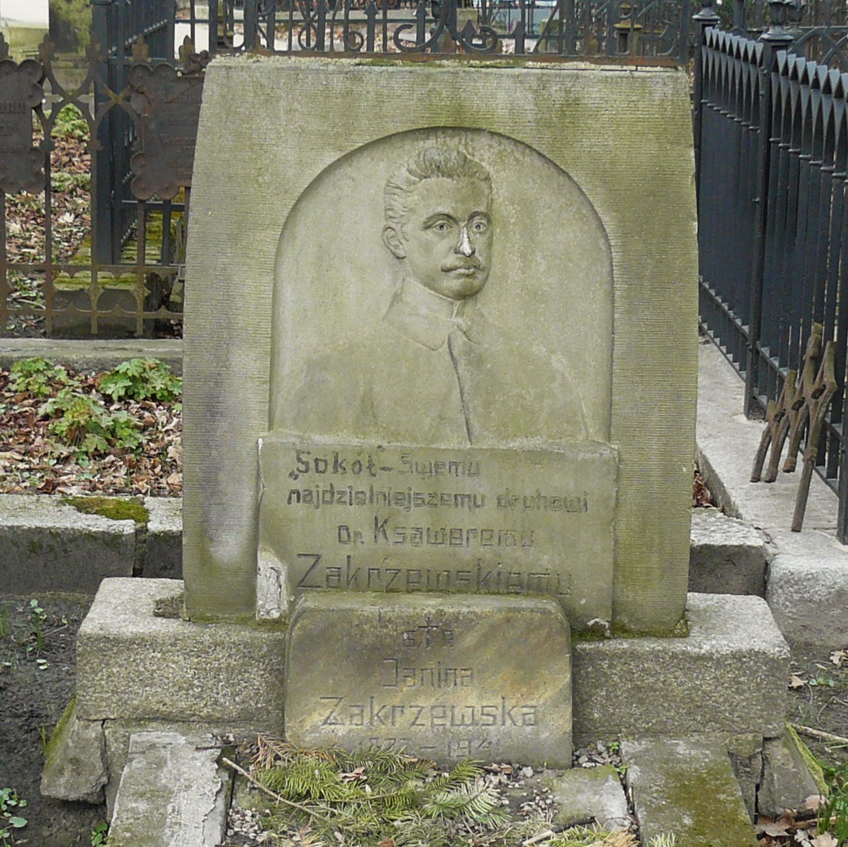 Ksawery Zakrzewski Tomb, Poznan.